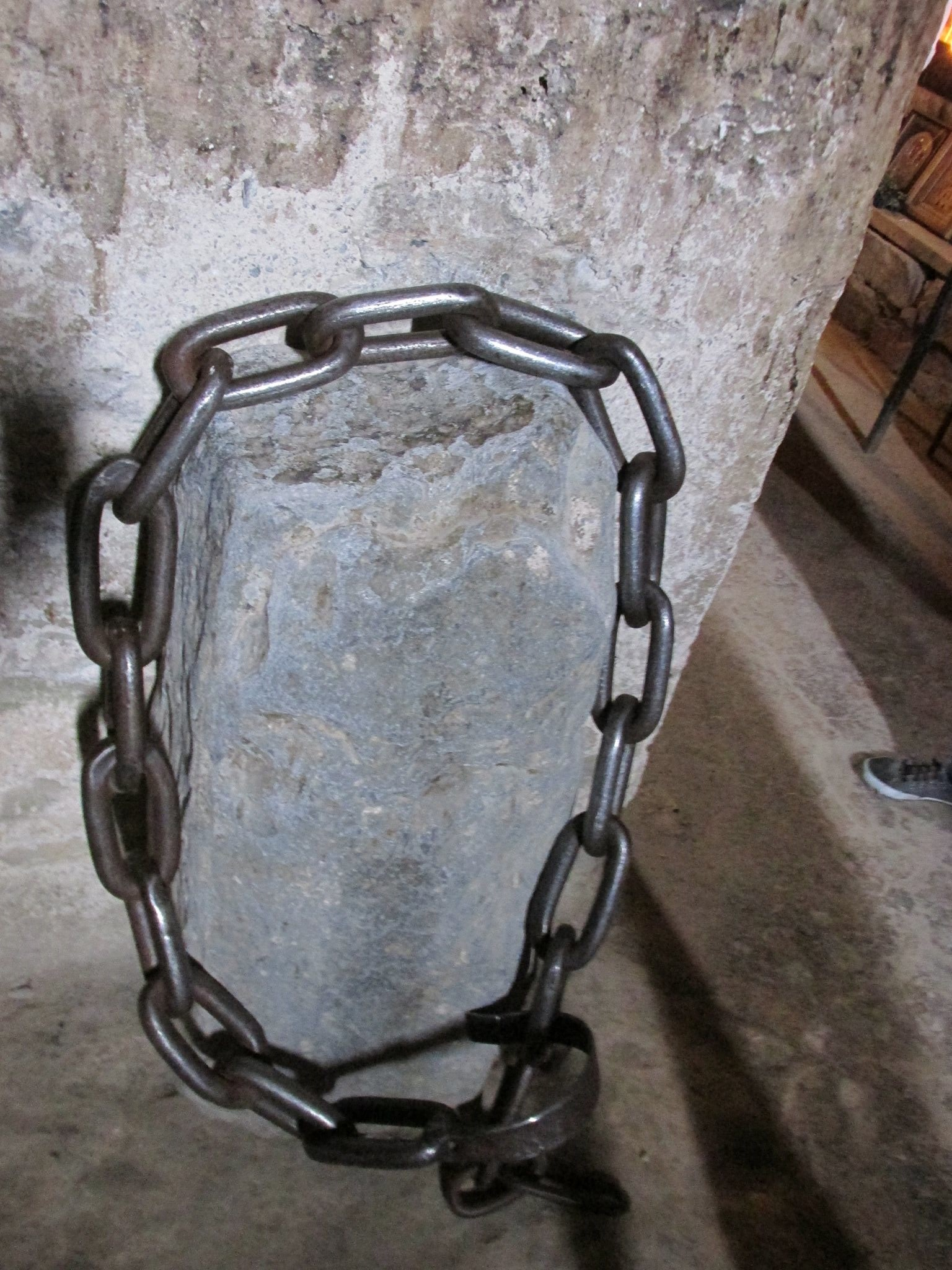 Chain in Lomisa church